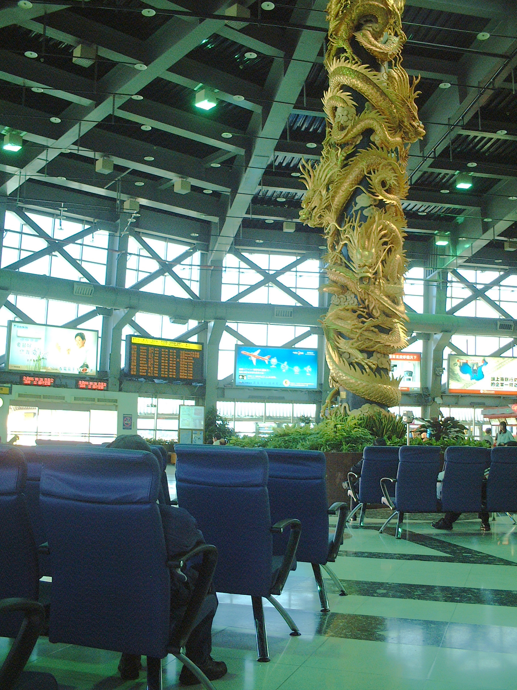 Interior of the domestic terminal departure area